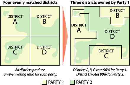 Gerrymander diagram for four sample districts. Created in Adobe Illustrator by Jeremy Kemp.